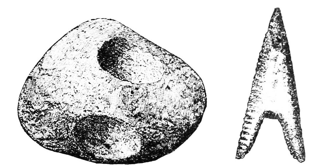 Hammering pebble and flint arrowhead